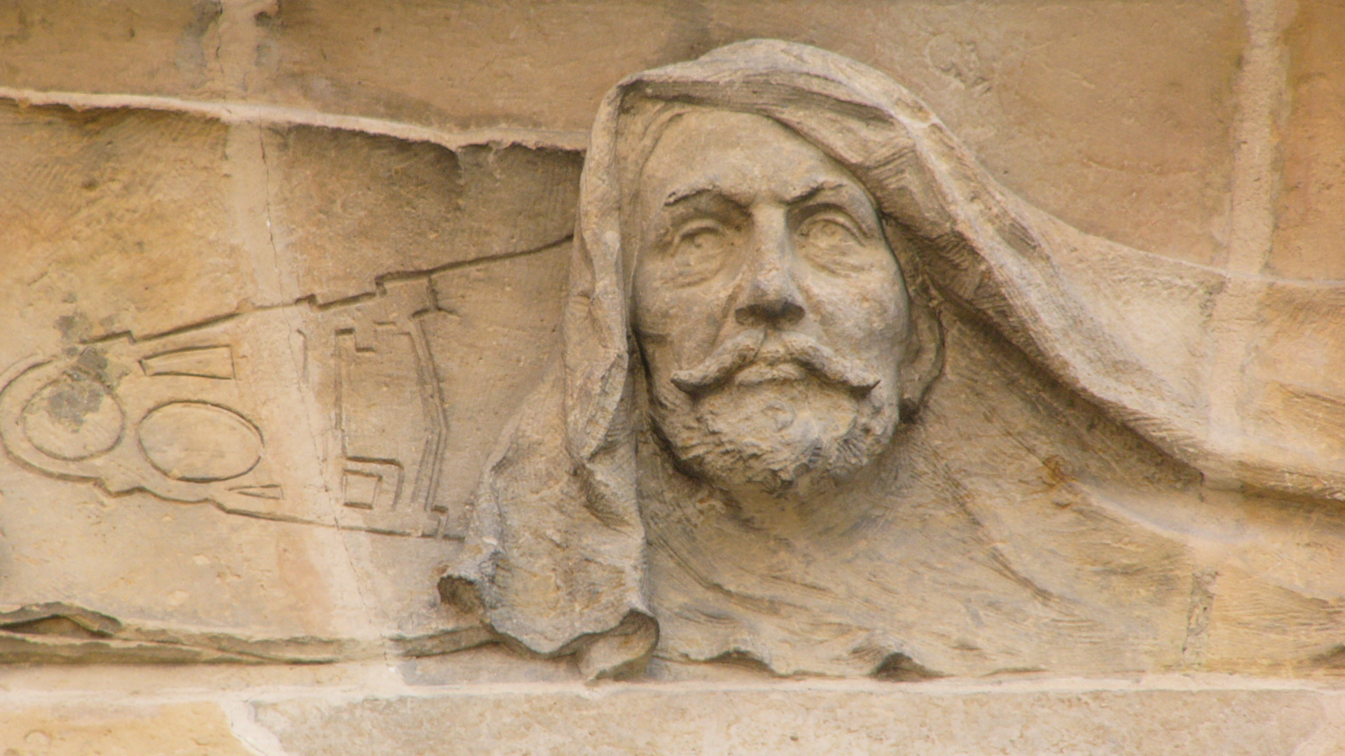 relief (or bust) Czech architect Eduard Sochor at Sarkandrova kaple chapel in Olomouc. This depiction of him was made during the rebuild of the chapel according to his project. Author of the bust is ?.